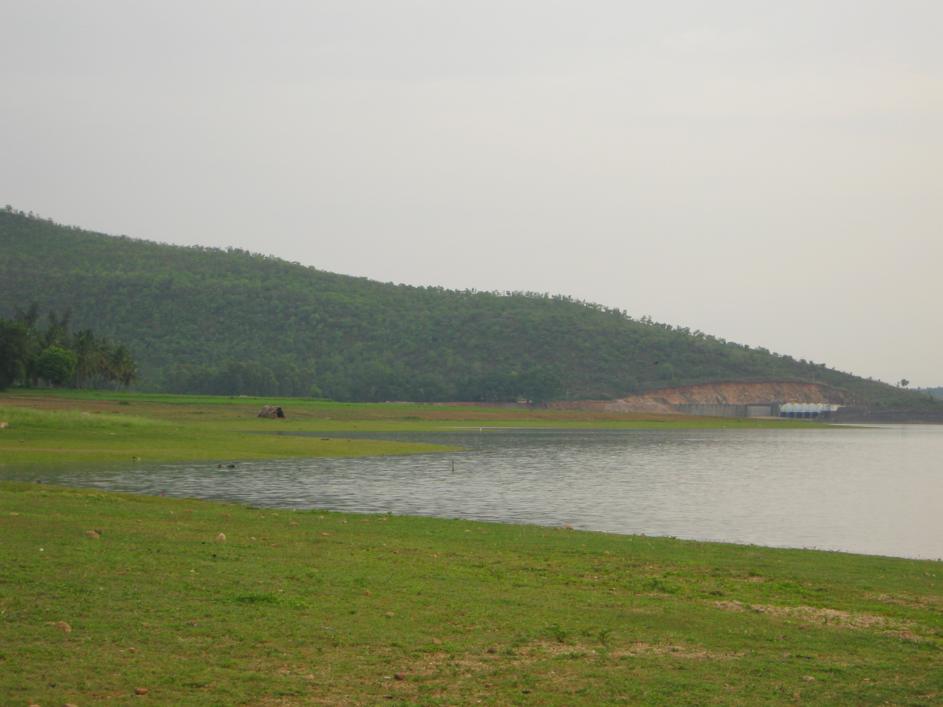 View of Kanva Dam, Karnataka State, India